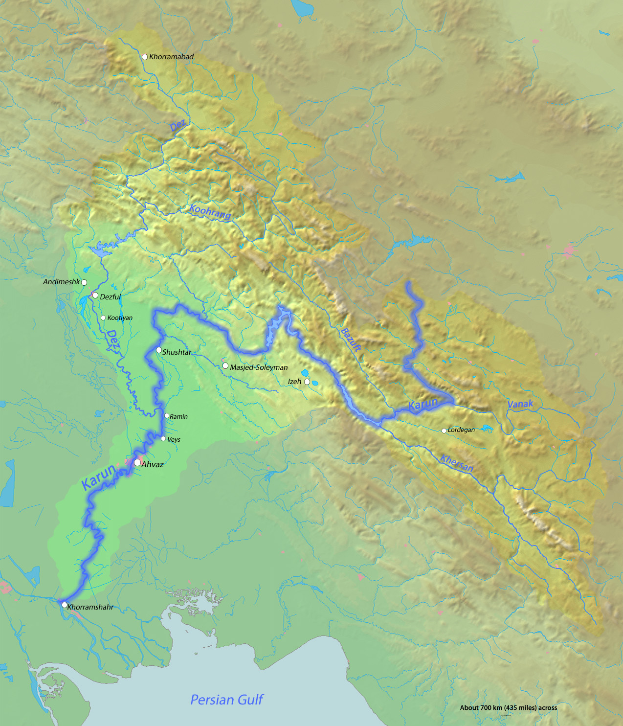 Map of the Karun River, largest river of Iran, that ultimately drains to the Persian Gulf.